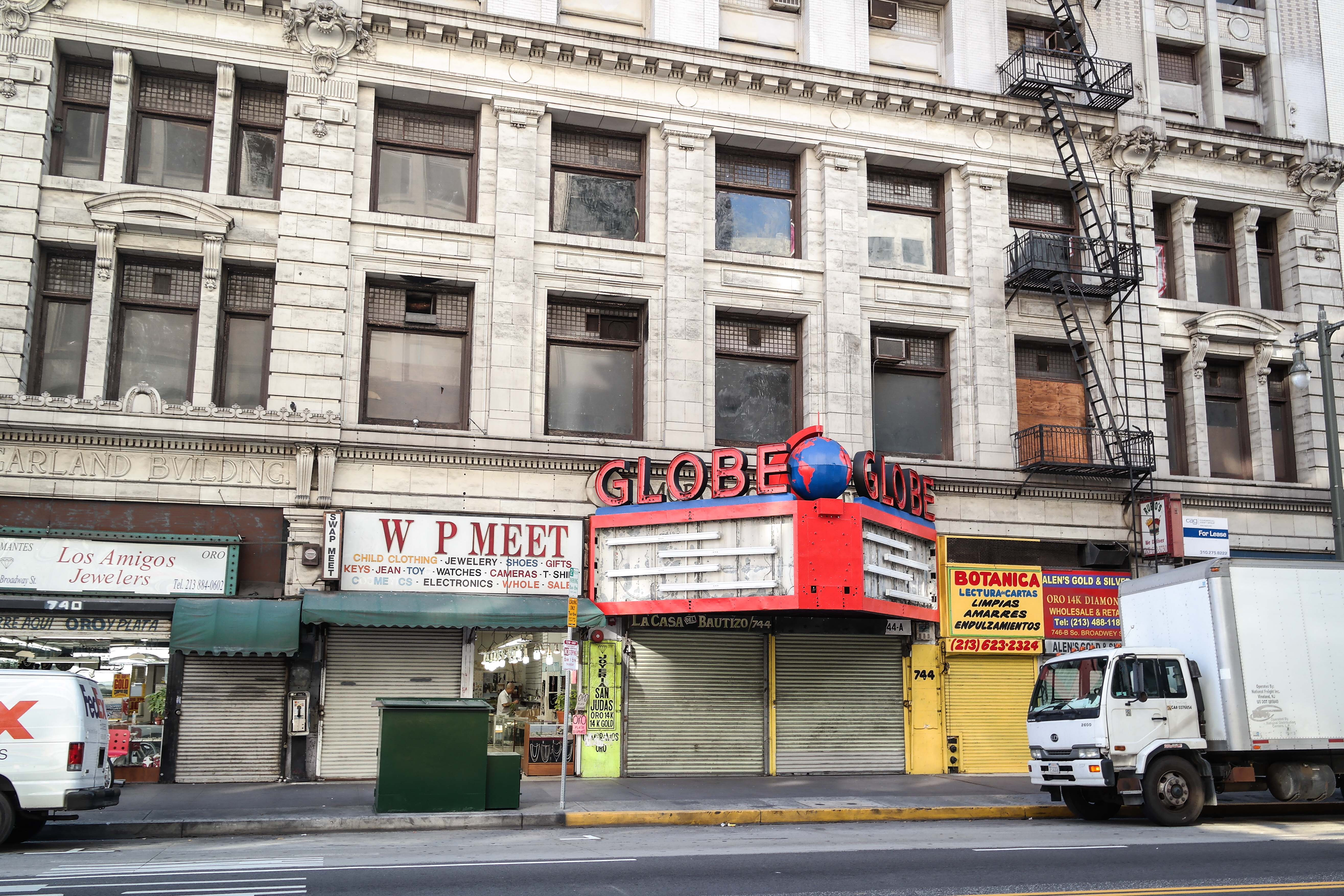 The 1912 Garland Building, home of the Morosco Theater, the Garland Theater, and currently the Globe Theater, in the Broadway Theater and Commercial District of Los Angeles